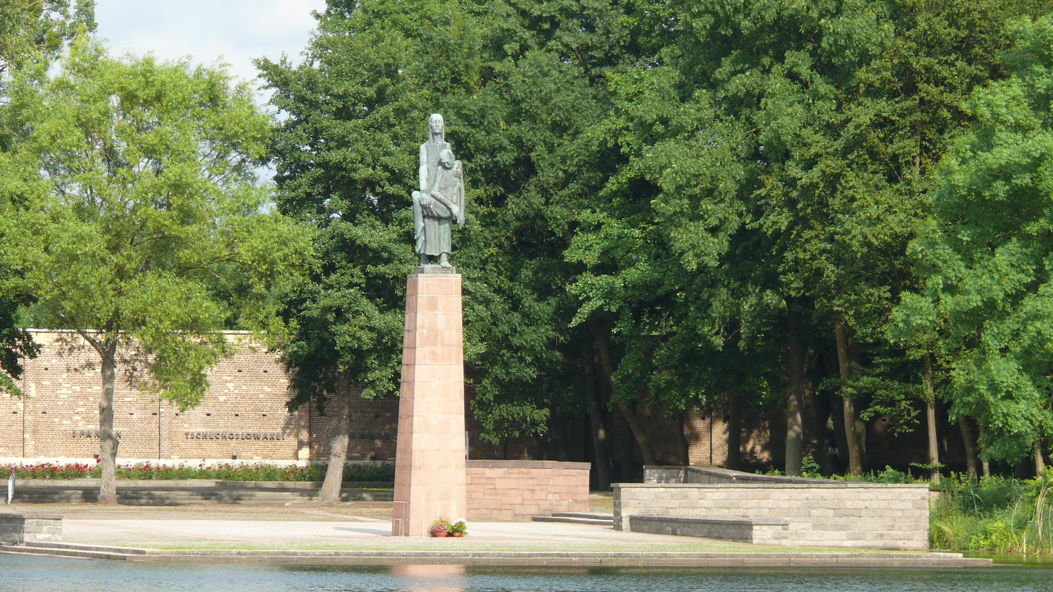 Ravensbrück (KL), Germany, memorial monument, viev from the lake